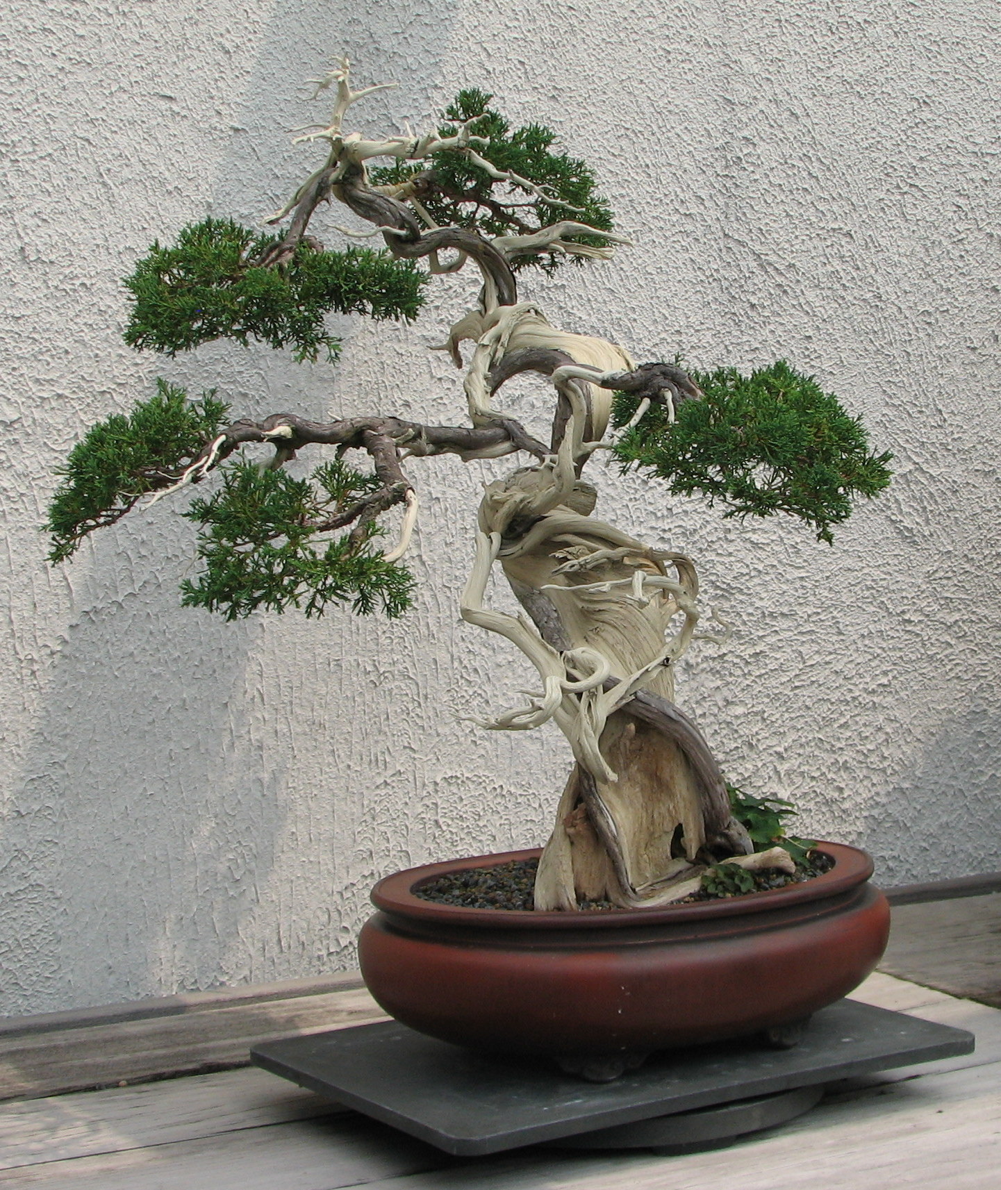 A Sargent Juniper (Juniperus chinensis var. sargentii) bonsai on display at the National Bonsai & Benjing Museum at the United States National Arboretum. According to the tree's display placard, it has been in training since 1905. It was donated by Kenichi Oguchi. This is the "back" of the tree.